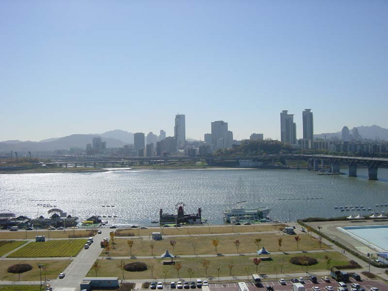 Han-gang looking south-east from over Ttukseom Resort, in the direction of Jamsil, Seoul.